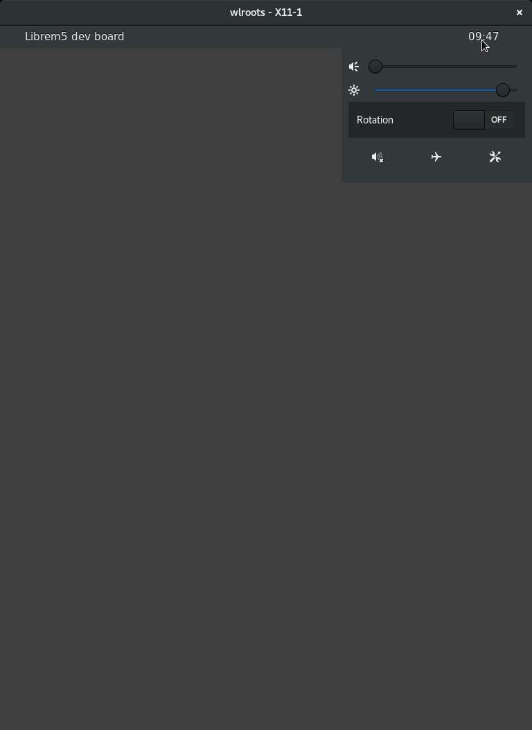 Screenshot of the under-development Phosh UI, for the Librem5 smartphone running PureOS.